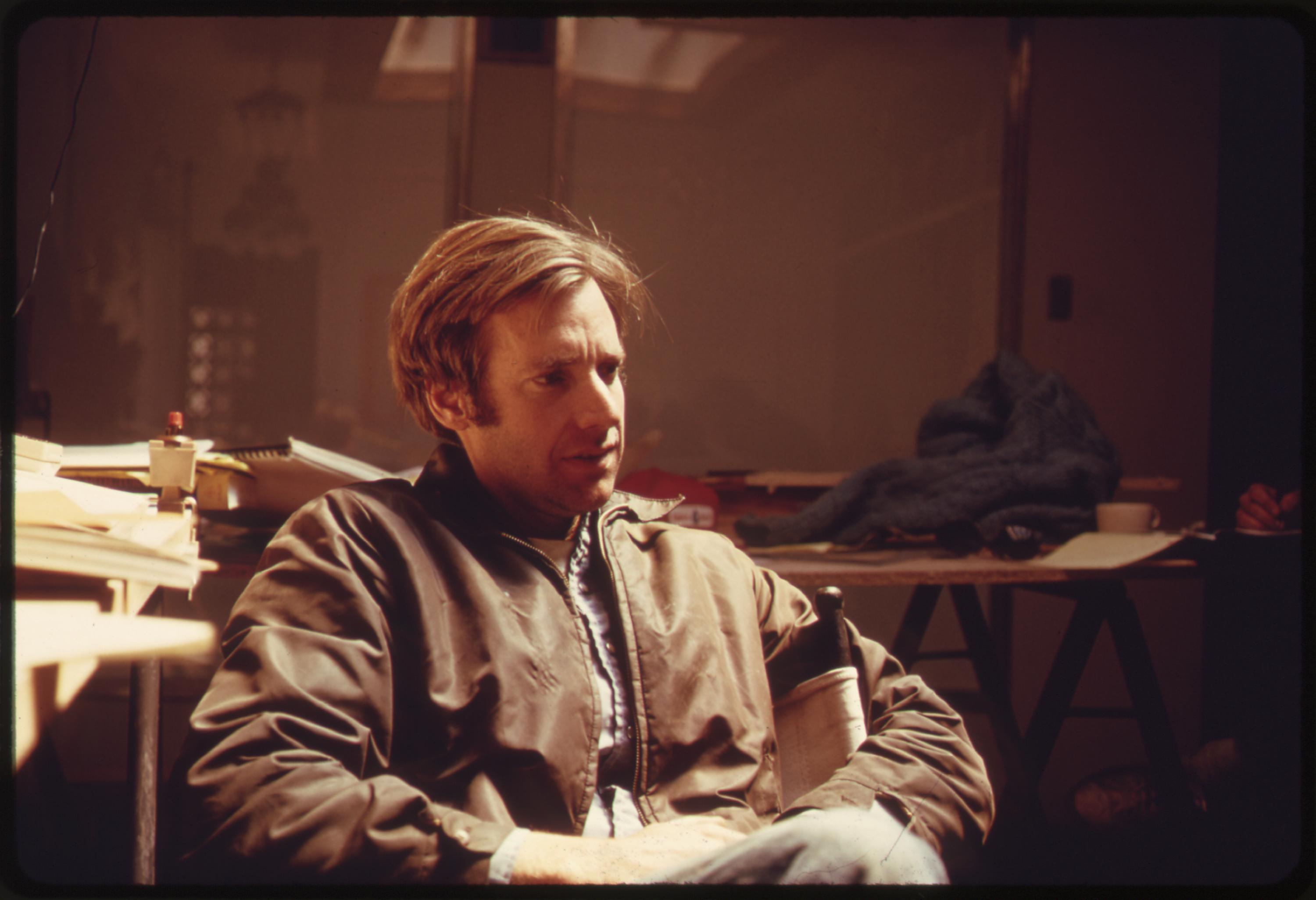 Original Caption: Steve baer, founder and operator of Zomeworks, Inc., of Albuquerque, New Mexico, one of the pioneers in solar energy applications, 04/1974 U.S. National Archives’ Local Identifier: 412-DA-12845 Photographer: Norton, Boyd Subjects: Environmental protection Natural resources Pollution Albuquerque (New Mexico, United States) inhabited place Persistent URL: Repository: Still Picture Records Section, Special Media Archives Services Division (NWCS-S), National Archives at College Park, 8601 Adelphi Road, College Park, MD, 20740-6001. For information about ordering reproductions of photographs held by the Still Picture Unit, visit: Reproductions may be ordered via an independent vendor. NARA maintains a list of vendors at Access Restrictions: Unrestricted Use Restrictions: Unrestricted